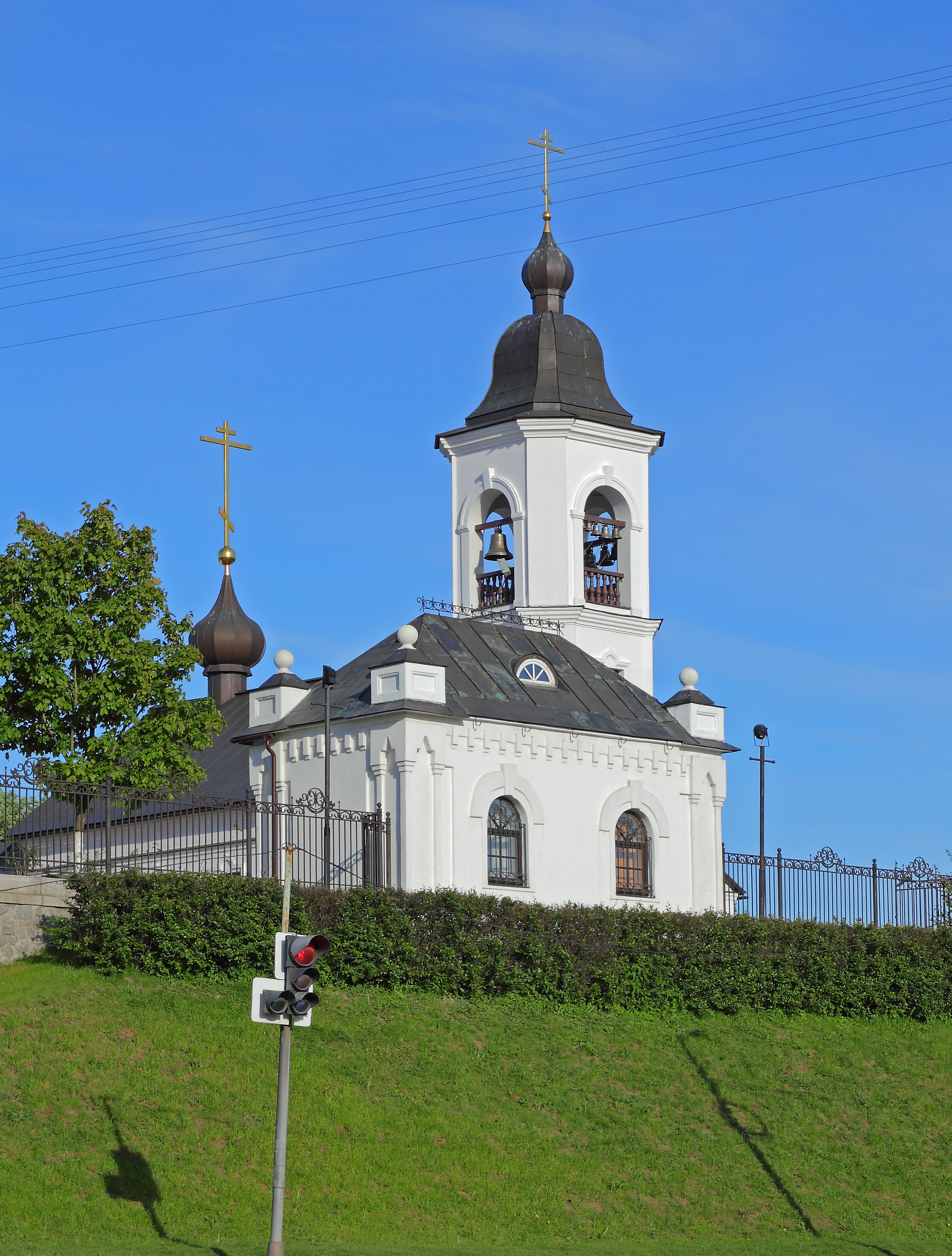 Vyborg (former Viipuri), Leningrad Oblast, Russia. Church of Elijah the Prophet.